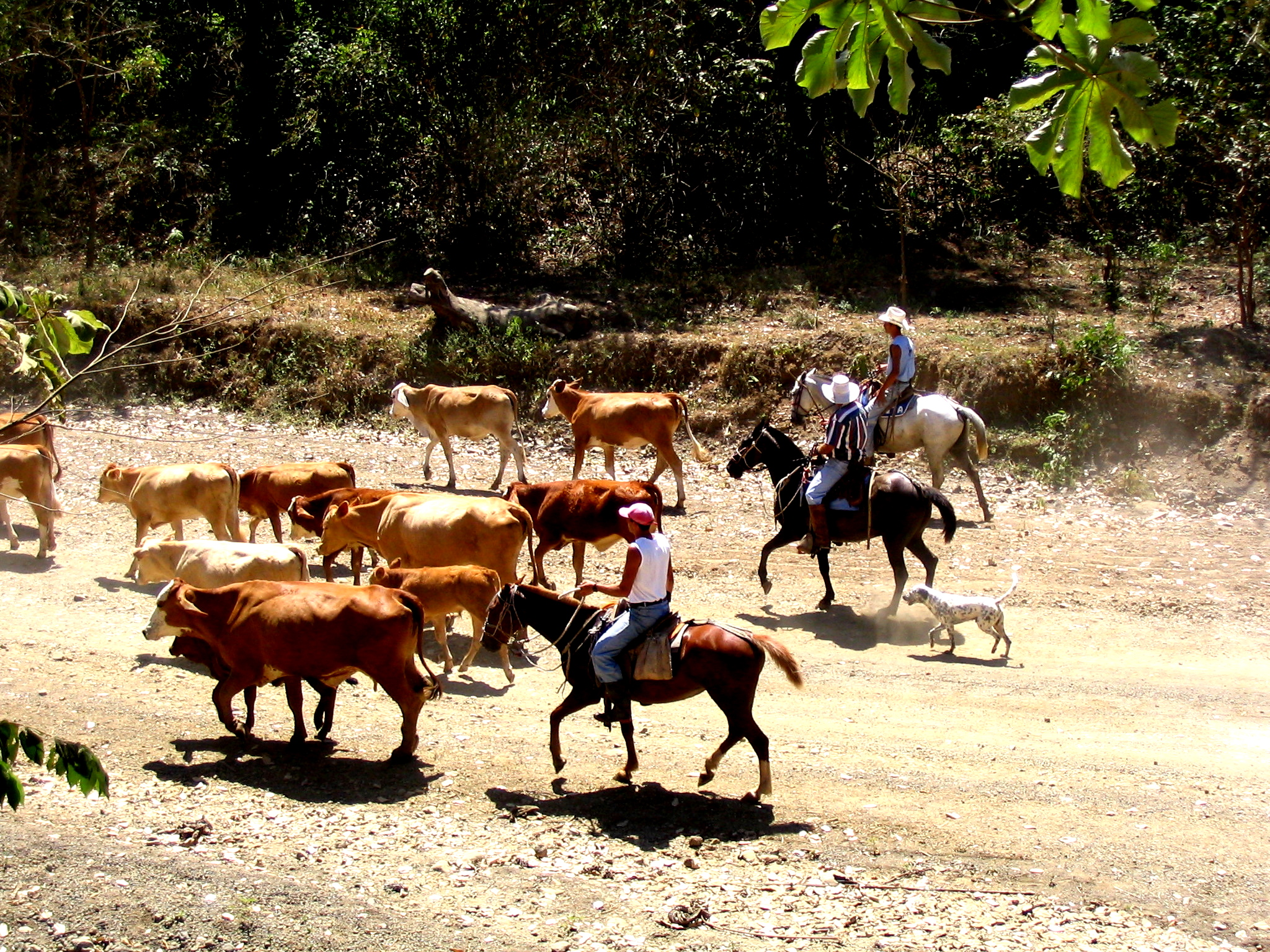 Herding Cattle in Costa Rica Winter 2005